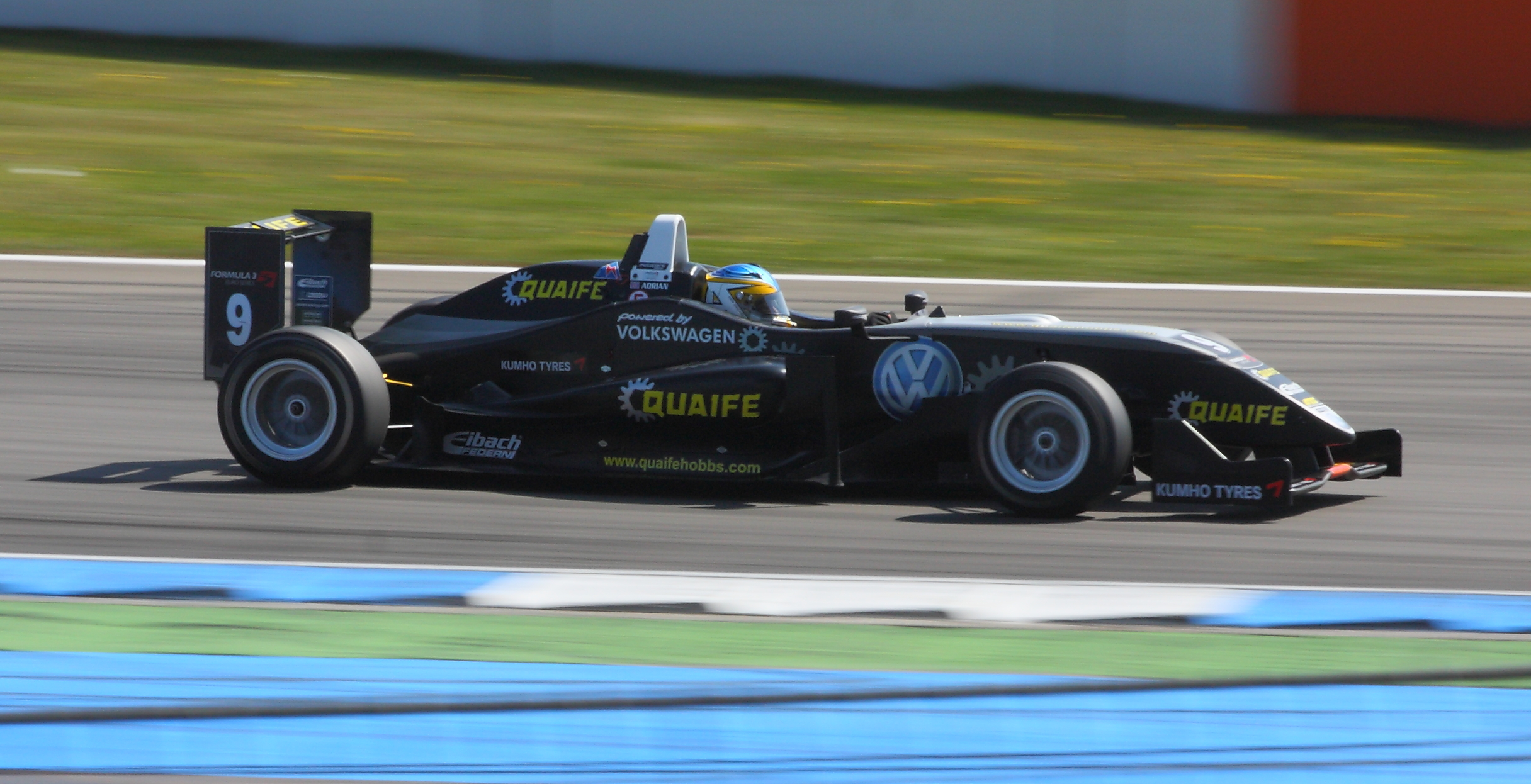 Formula 3 Euroseries, Hockenheimring; Adrian Quaife-Hobbs